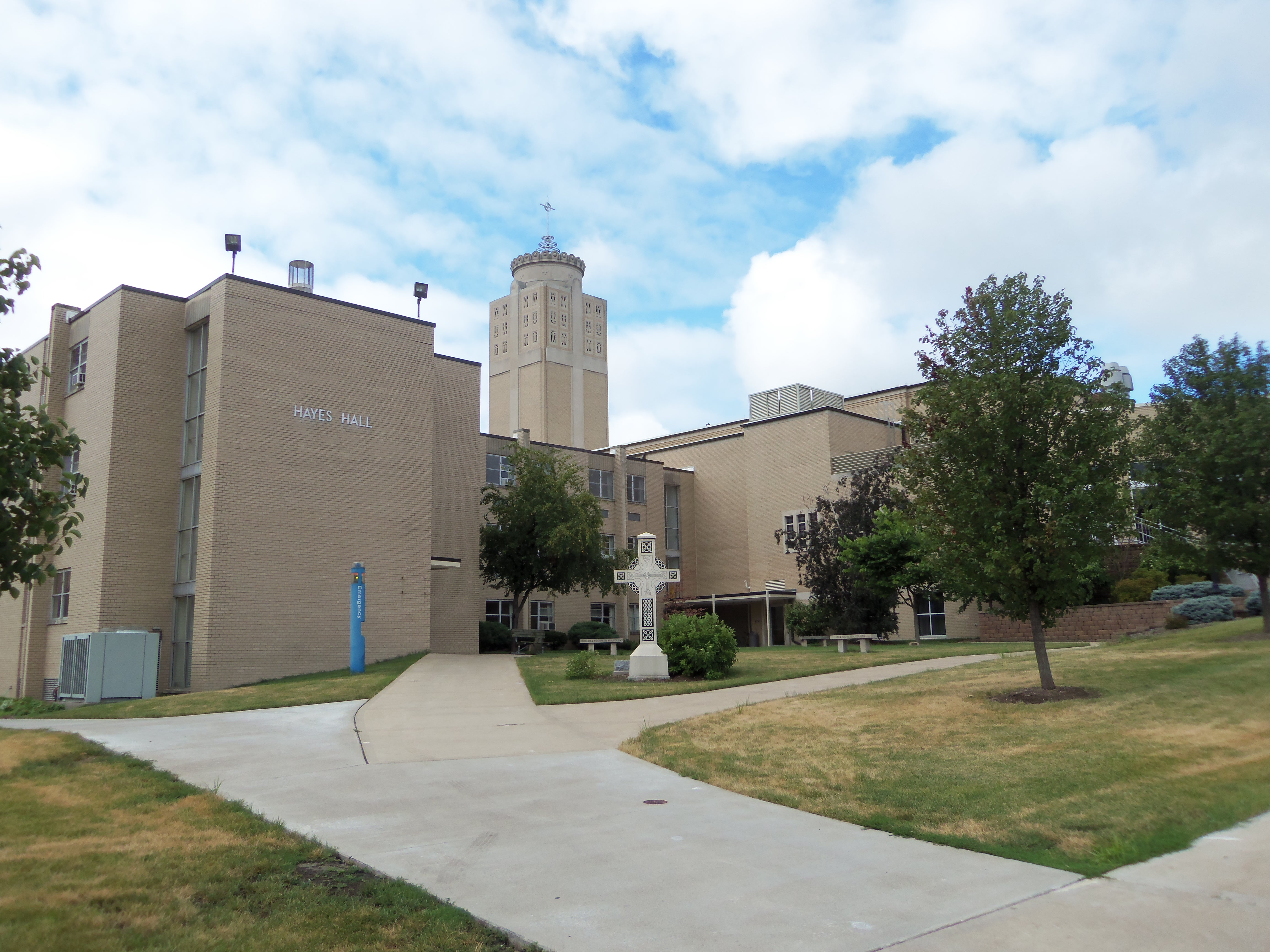 Christ the King Chapel and Hayes Hall on the campus of St. Ambrose University from the rear. The Celtic Cross was placed by the Celtic Heritage Association of the Quad Cities.